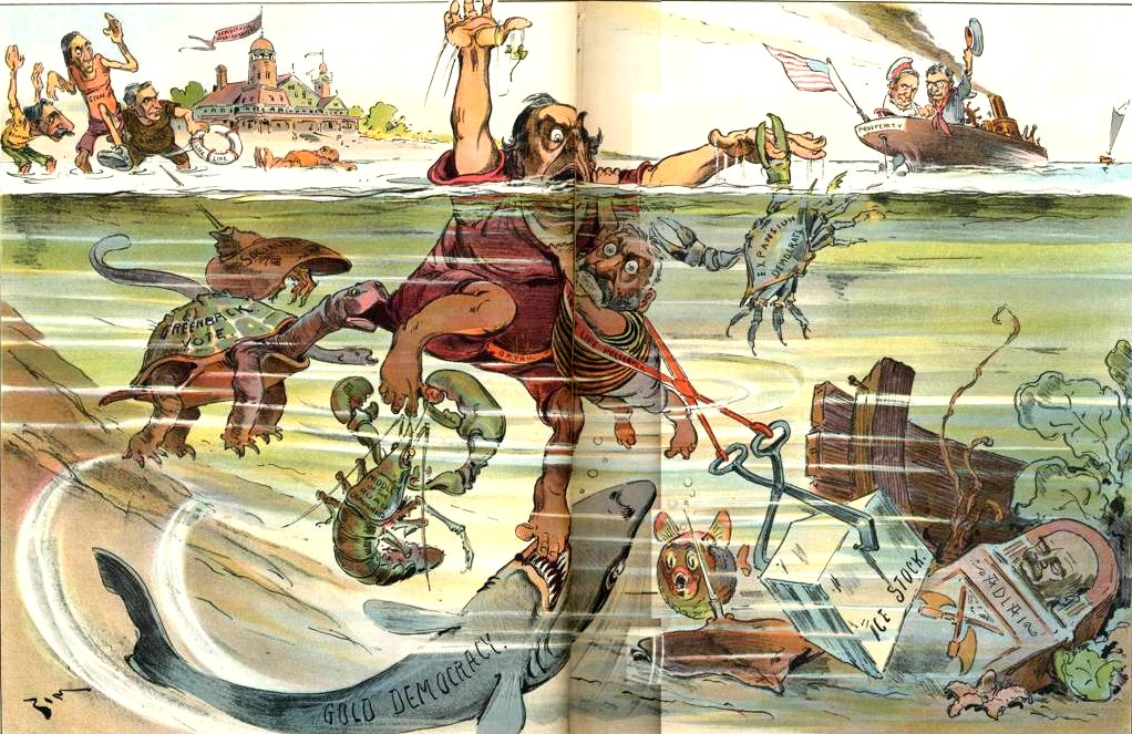 ‘Down Goes McGinty’, This cartoon parodies a popular comic song about a foolish Irishman who undergoes a series of mishaps culminating in a fall into the sea, where he dies. McGinty here is Democratic presidential nominee of 1900, William Jennings Bryan. At right, Republican candidates William McKinley and Theodore Roosevelt sail away in a boat labeled "Prosperity".